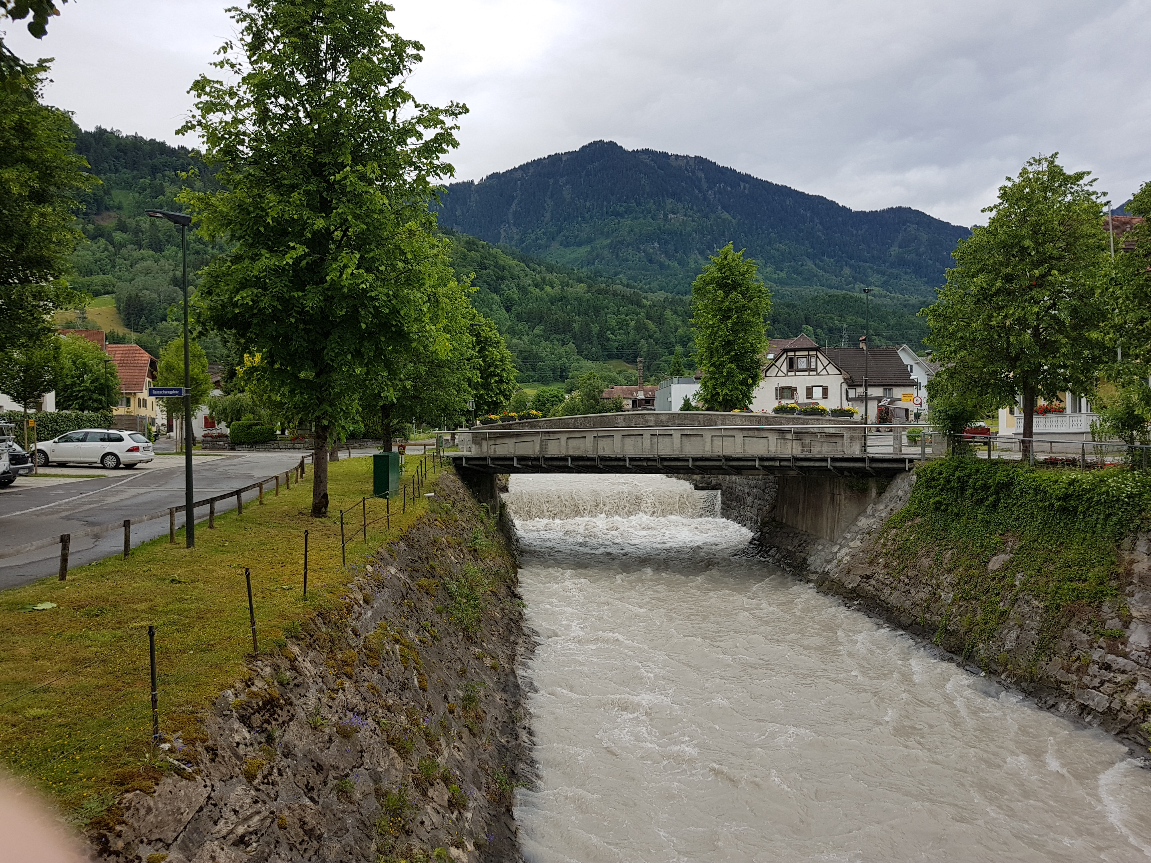 Mengbrücke in Nenzing in Vorarlberg, Austria. Monument protected object (ObjektID: 87950).